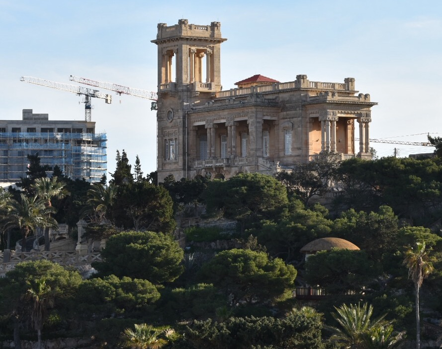 Villa Rosa This media is about Maltese cultural property with inventory number 01216.